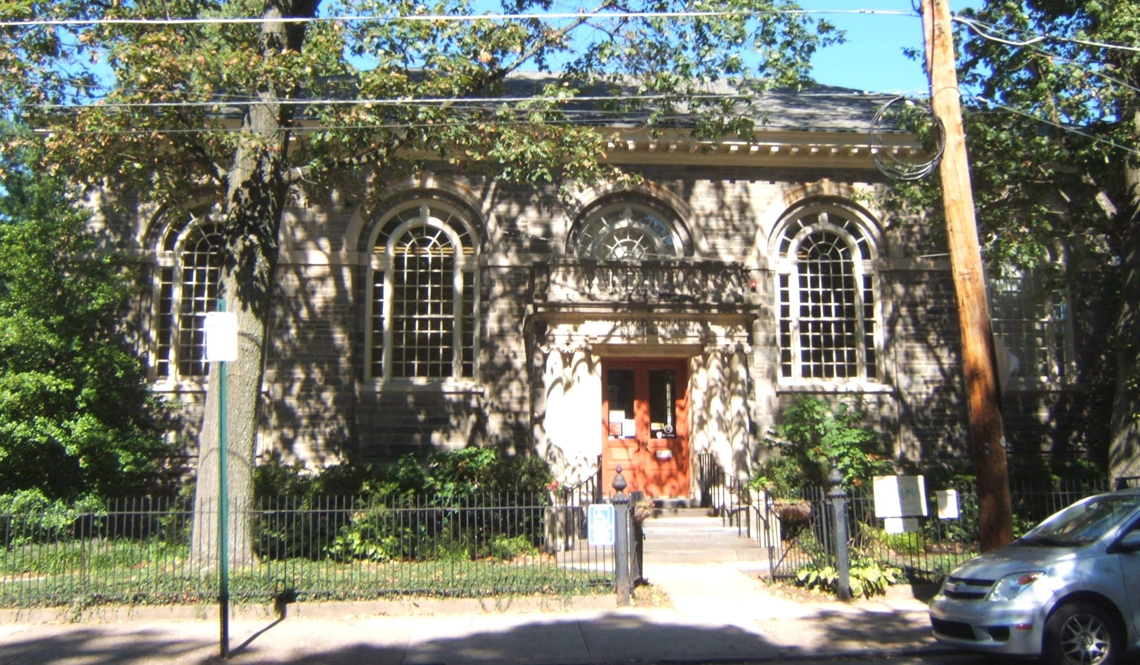 Chestnut Hill Branch, Free Library of Philadelphia - 8711 Germantown Avenue, Philadelphia, PA 19118